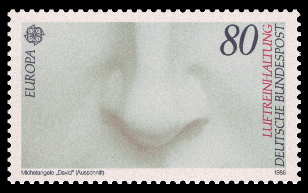 Europa postage stamps, nature and environmental protection